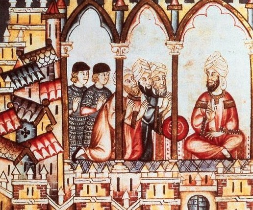 castillian ambassadors attempting to convince almohad king Abu Hafs Umar al-Murtada to join their alliance .contemporary depiction from The Cantigas de Santa Maria .